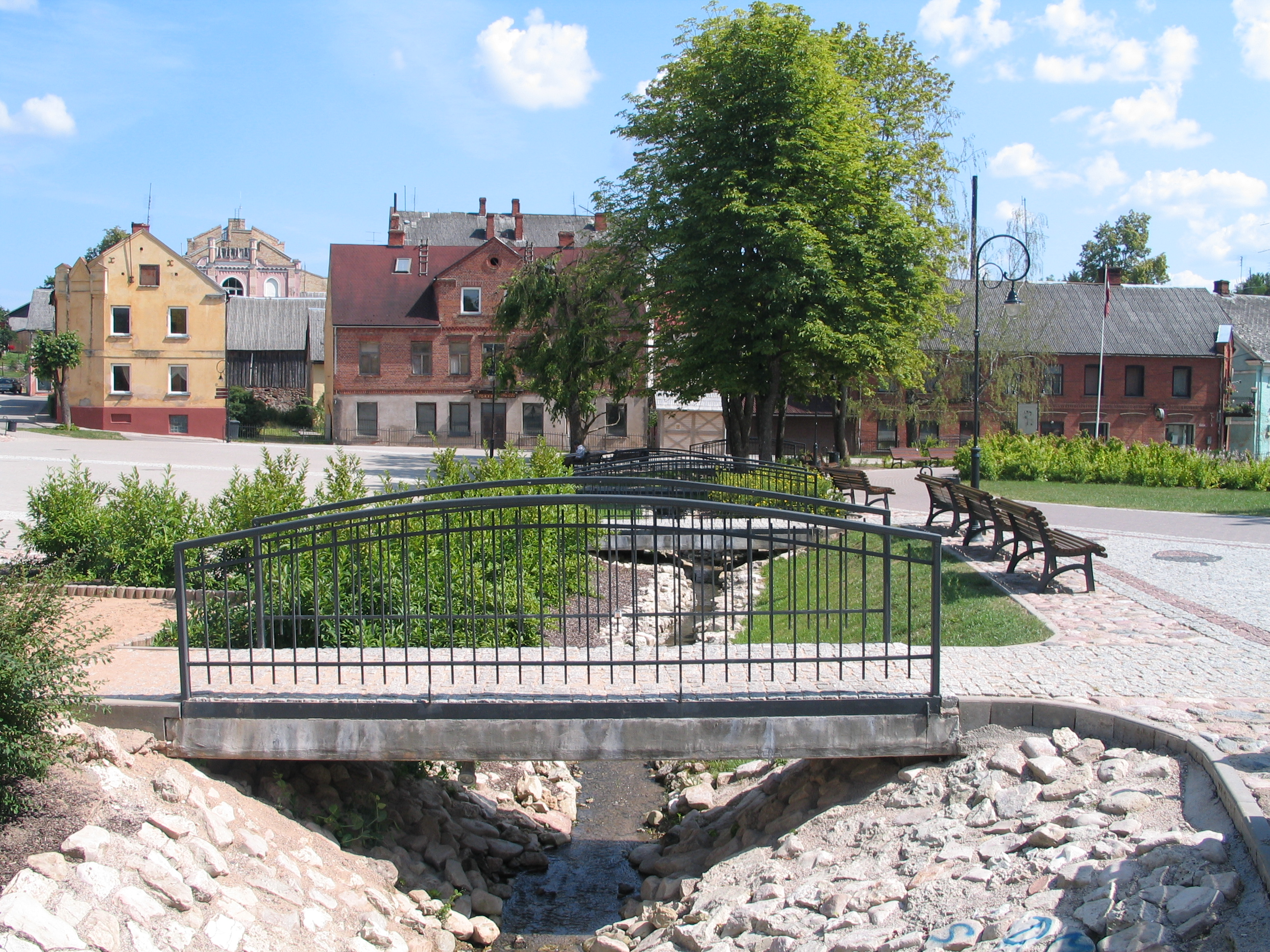 City park in Kandava